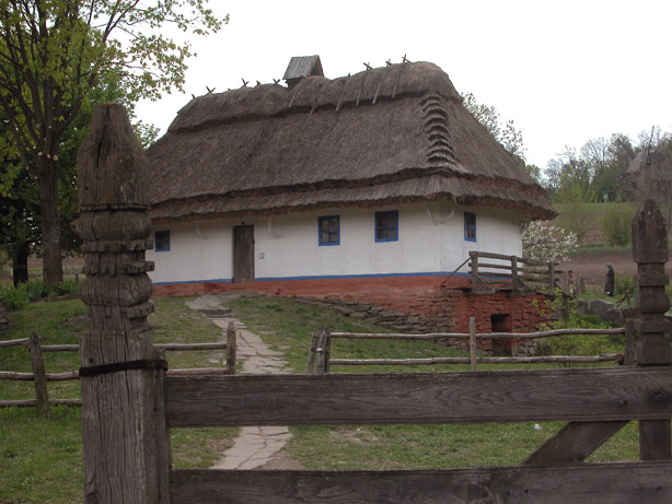 Open-Air museum of Folk Architecture and Ethnography of Ukraine photo by Vladimir Barbul